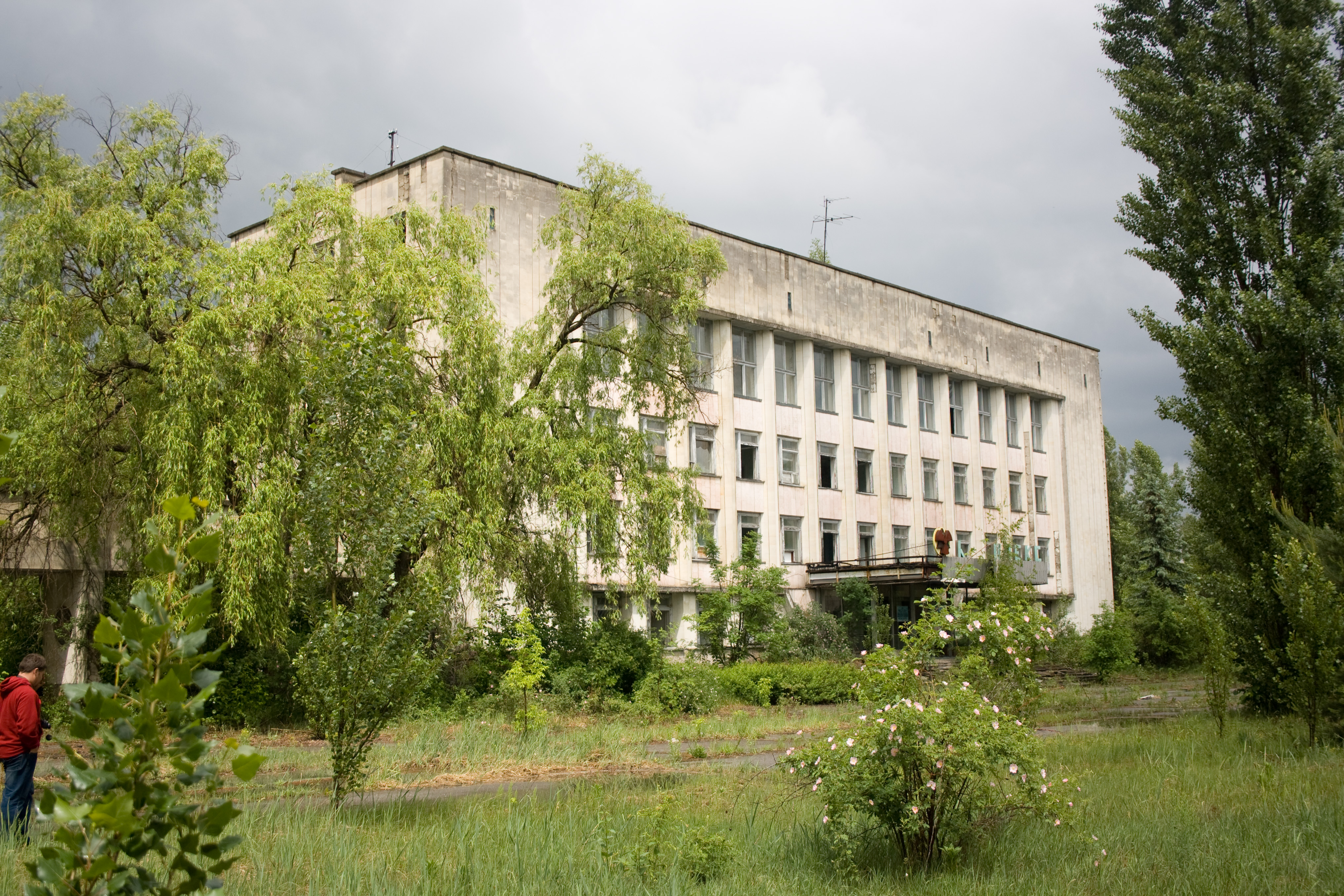 Pripyat, Chernobyl nuclear power plant area, Ukraine